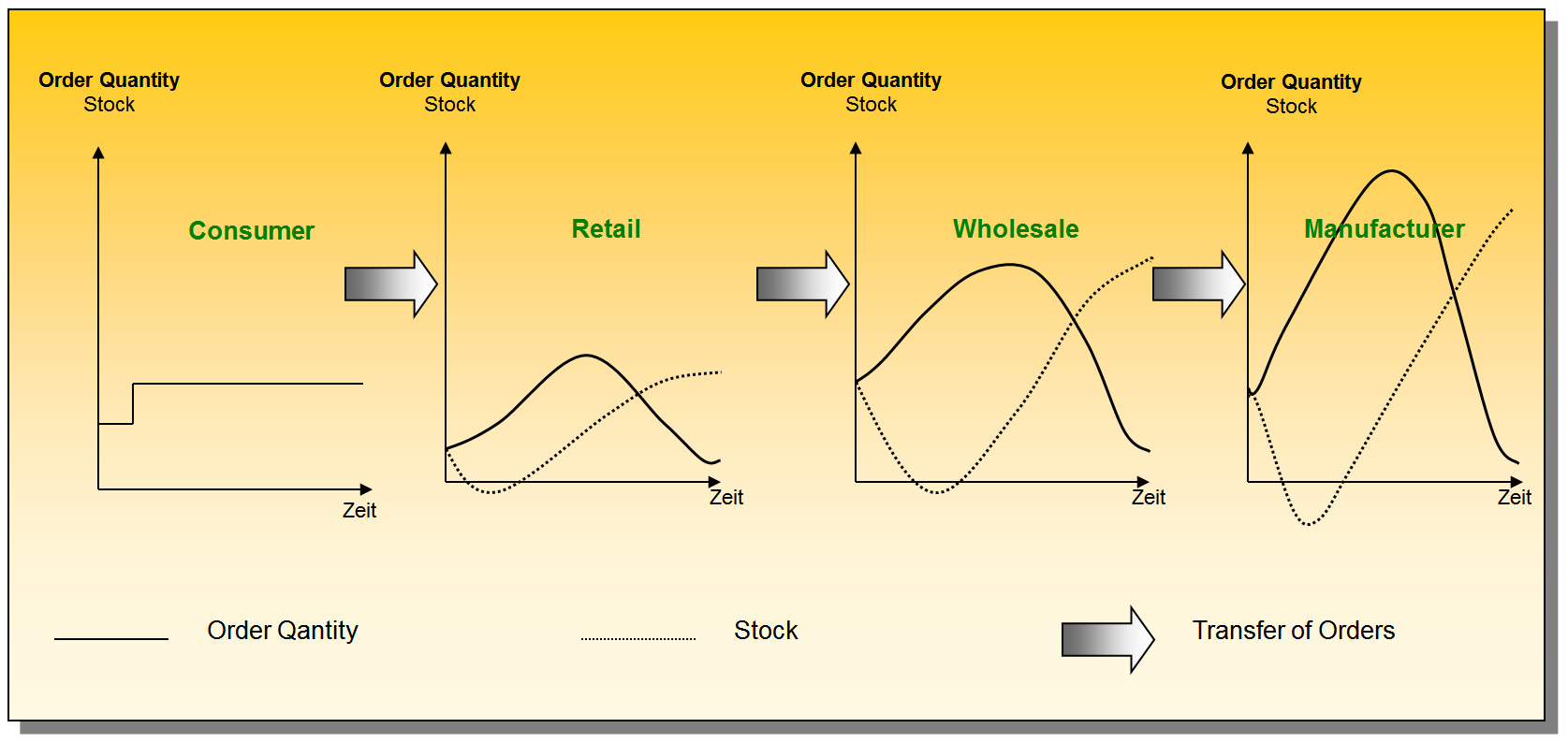 Visualization of Bullwhip effect